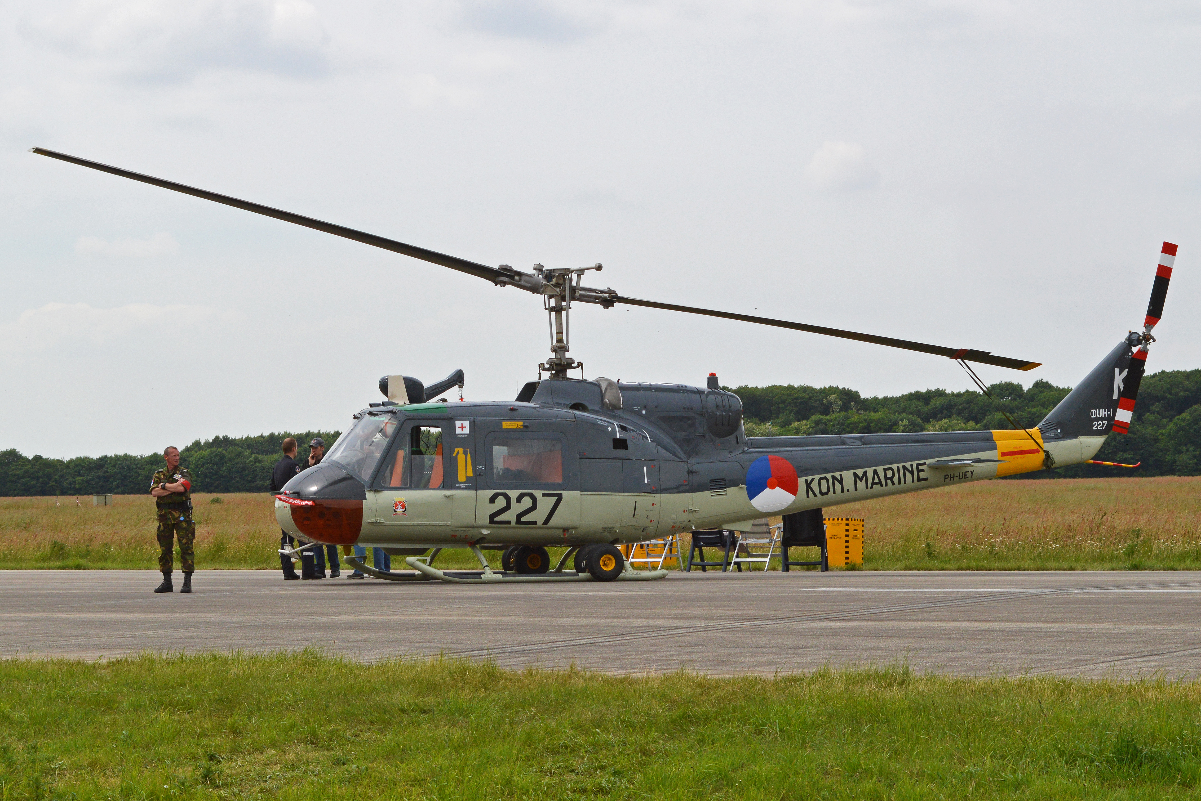 Beautifully restored and airworthy in its original 'Kon Marine' (Dutch Navy) colour scheme. It also has an appropriate civil registration! c/n 3035. On static display at the '100th Anniversary of Dutch military aviation' airshow. Volkel Air Base, Netherlands. 14-6-2013